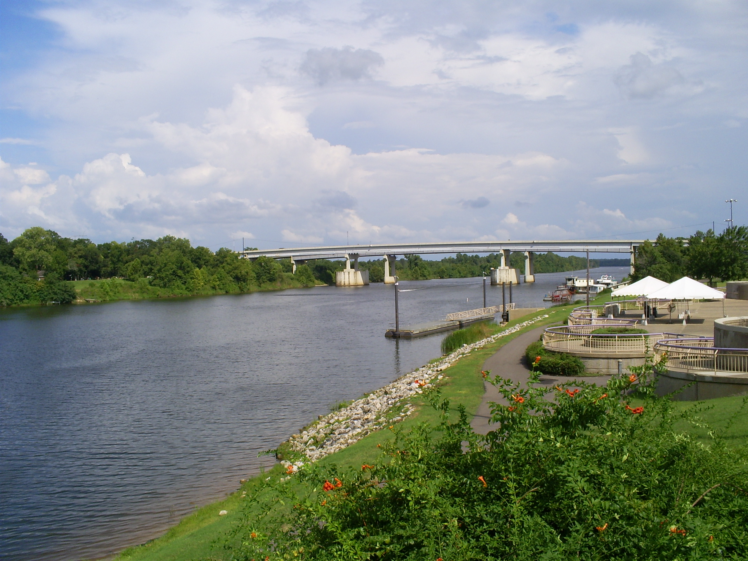 Red River Amphitheatre Alexandria, Louisiana.